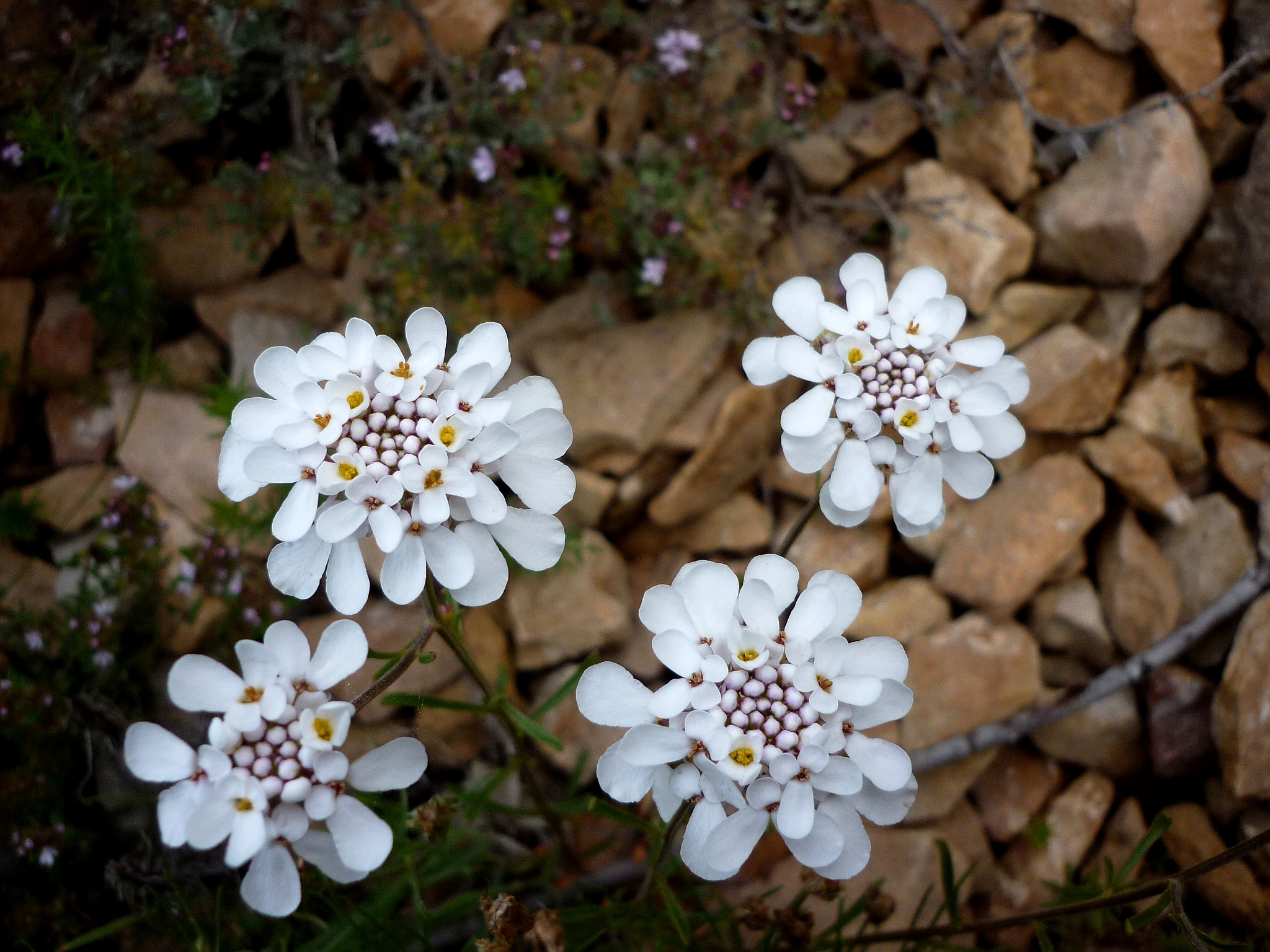 Iberis sempervirens. In l'Alzina d'Alinyà (Alt Urgell-Catalunya). To 1.430 m. altitude